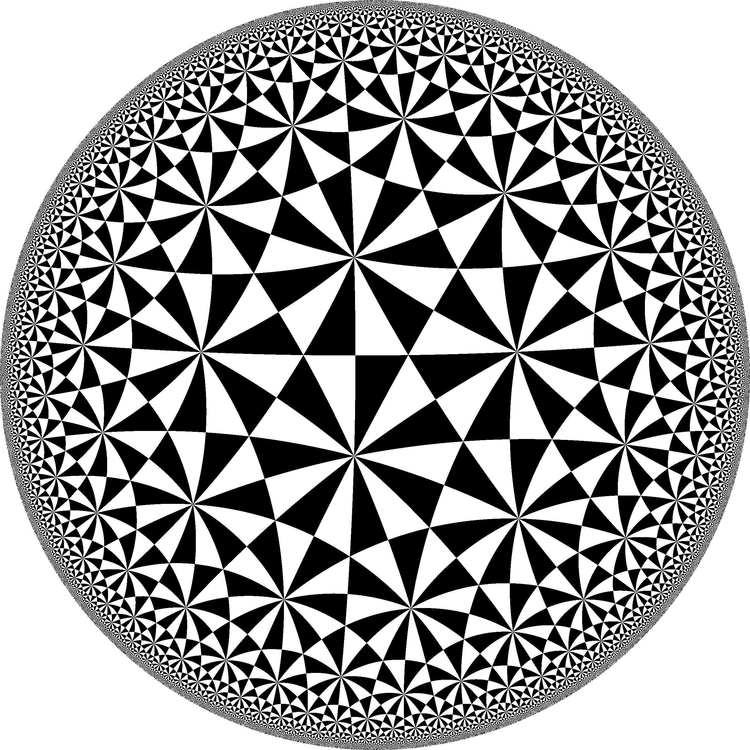 Tiling of the hyperbolic plane by triangles: π/2, π/3, π/7. This triangle is the smallest figure that can tile H2. Generated by Python code at User:Tamfang/programs. Dual